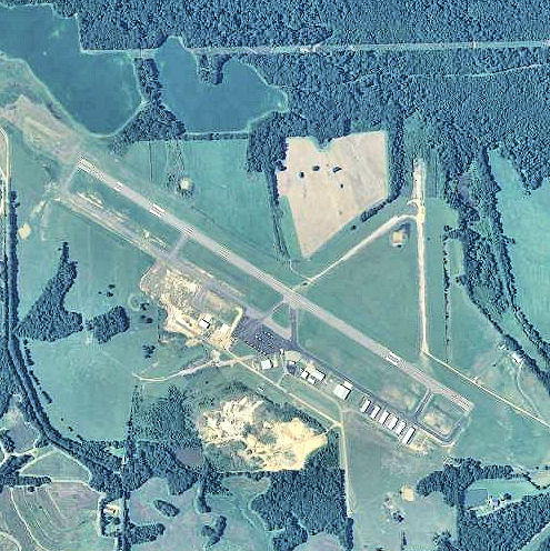 USGS digital orthophoto of John Bell Williams Airport in Mississippi